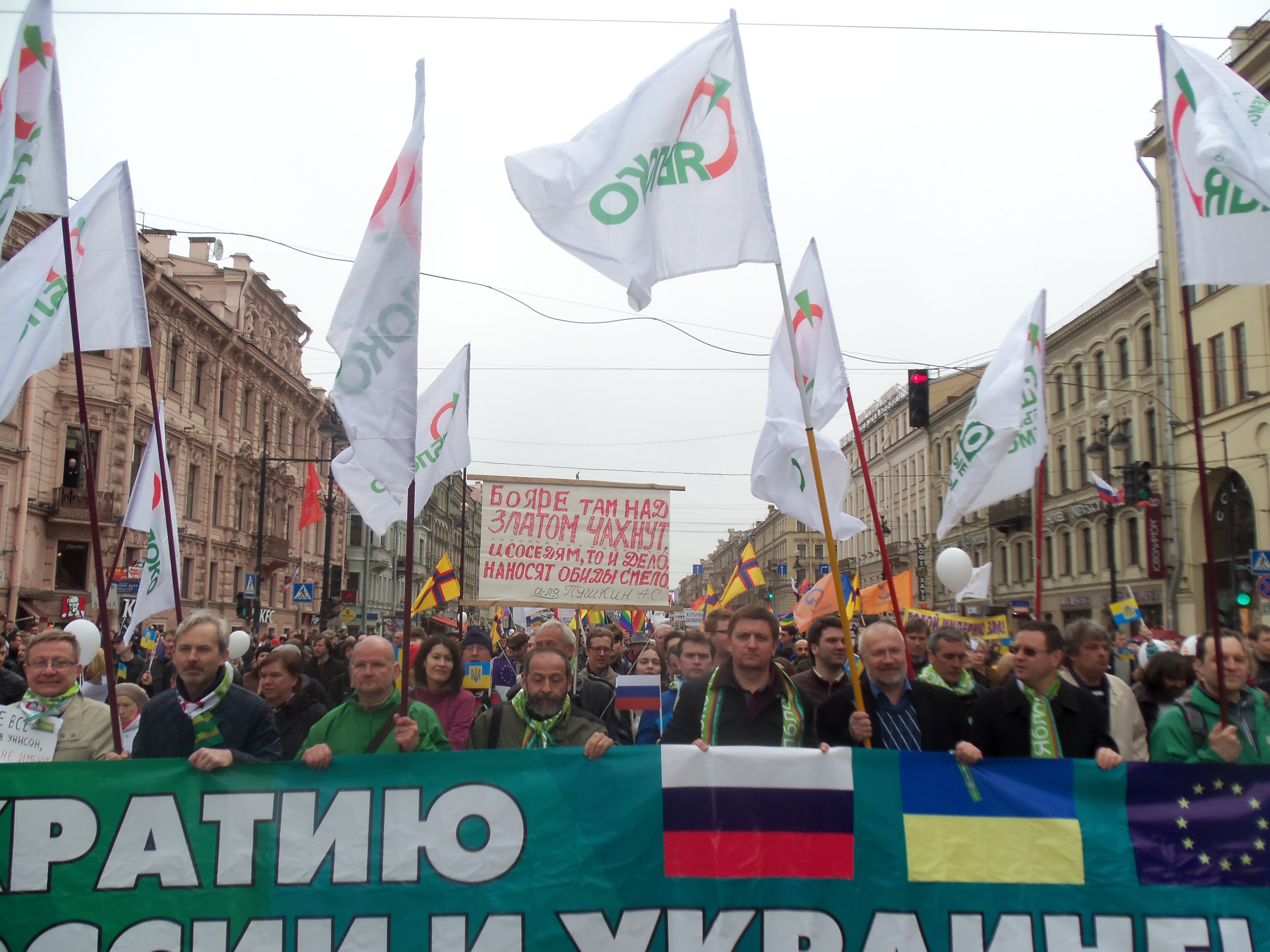 A demonstration against war of Russia with Ukraine in Saint Petersburg